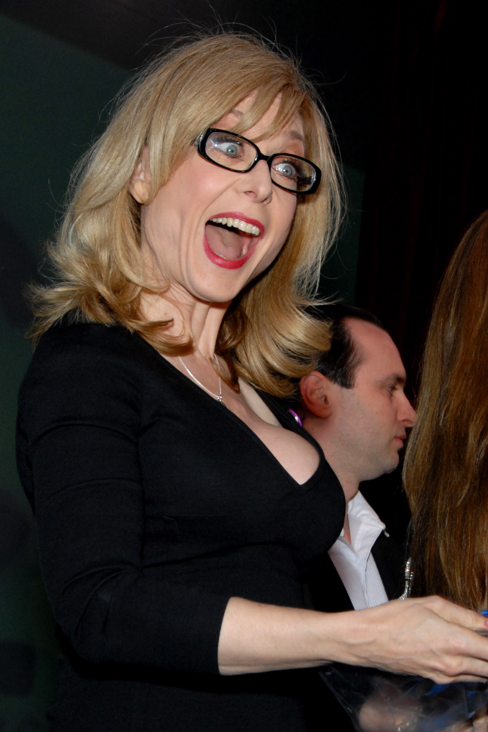 Nina Hartley presenting an award at the XRCO Awards, Hollywood, CA on April 16, 2009 - Photo by Glenn Francis of